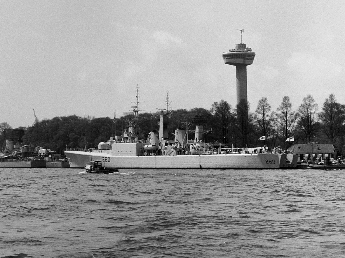 The Royal Canadian Navy destroyer HMCS Columbia (DDE 260) docked at Rotterdam, the Netherlands, on 10 May 1965. The Royal Navy frigate HMS Leander (F109) is docked inboard of Columbia.